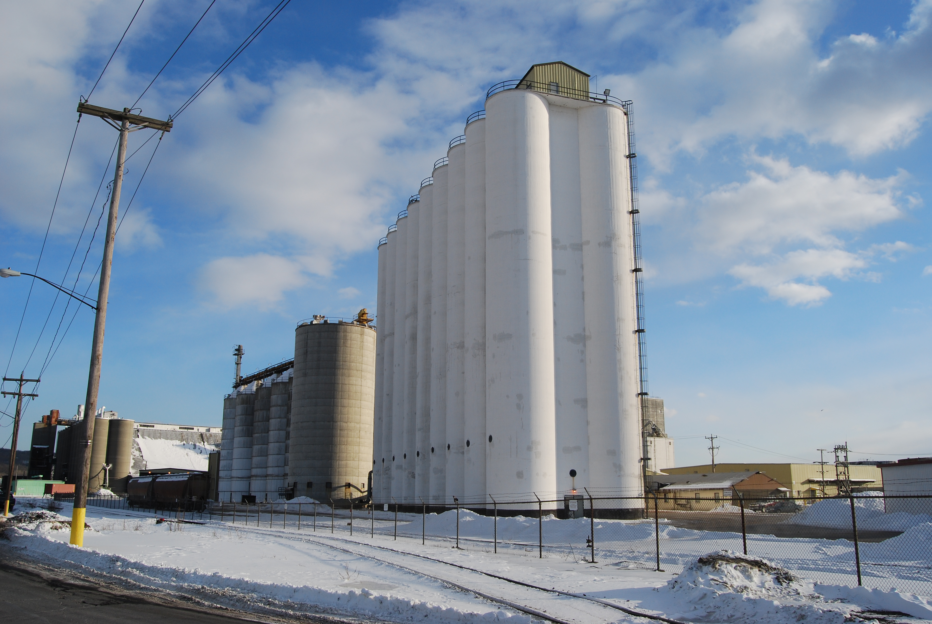 Grain elevator at Port of Albany-Rensselaer, largest east of the Mississippi River in United States, owned by Cargill